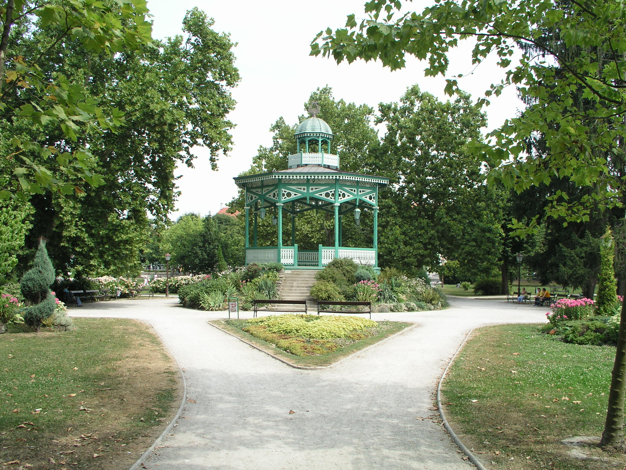 Park in Koprivnica, Croatia